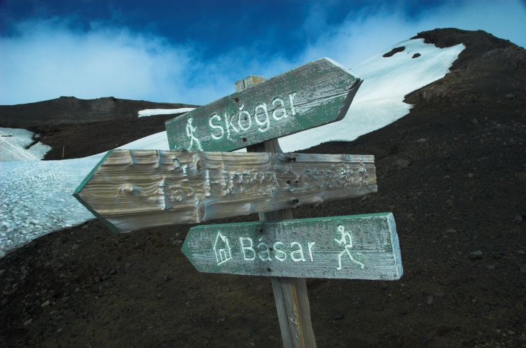 The highest point on fimmvorduhals, trail between Skogar and Thorsmork Iceland. Taken by myself, Olafur Agust.